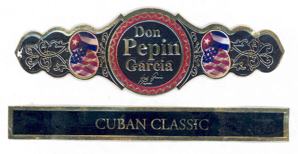 cigar band, Don Pepin Garcia Black Edition; 600 dpi, optimized for Web